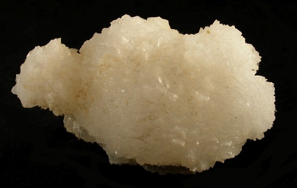 Goosecreekite Locality: Nasik District, Maharashtra, India (Locality at ) Size: 10.0 x 5.4 x 5.2 cm. Goosecreekite is a very rare zeolite group species, worldwide and also from the Deccan Traps of India. This is a fine cabinet goosecreekite specimen from Nasik and the George Feist Collection. The translucent, wedge-shaped, milky-white crystals have silky lustre and form three, intergrown, spherical aggregates. The balls rest on a thin basalt crust covered with quartz crystals.